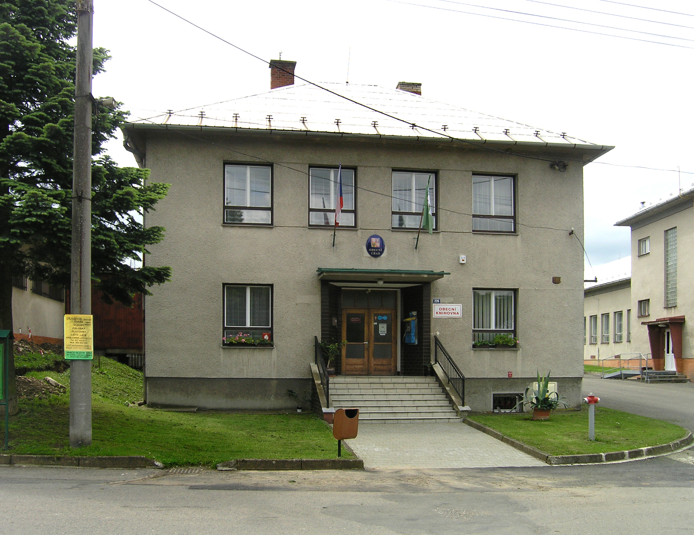 Municipal office in Bratřejov, Czech Republic